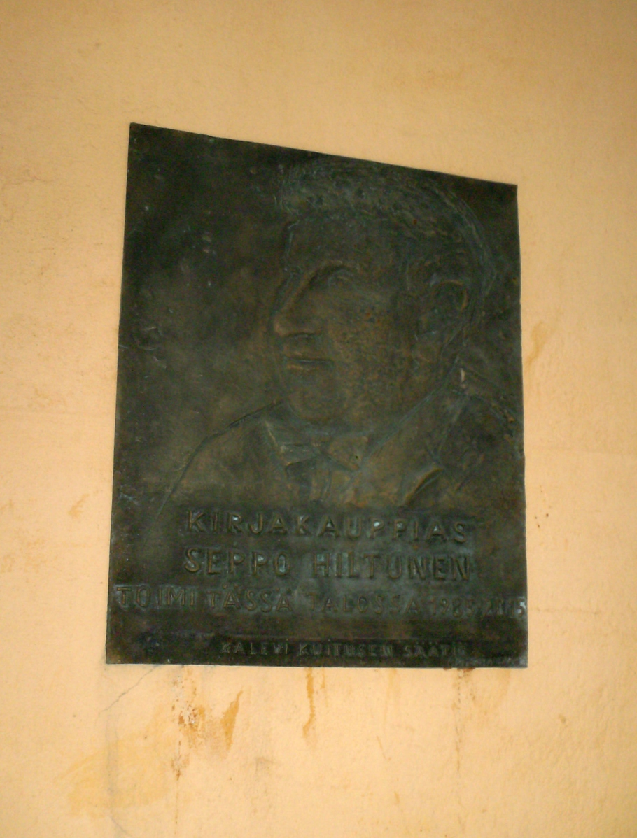 Photograph of a plaque commemorating the antiquarian bookshop of Seppo Hiltunen at Sofiankatu, Helsinki.